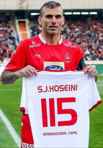 Jalal Hosseini before playing with Zob Ahan. Gallery link